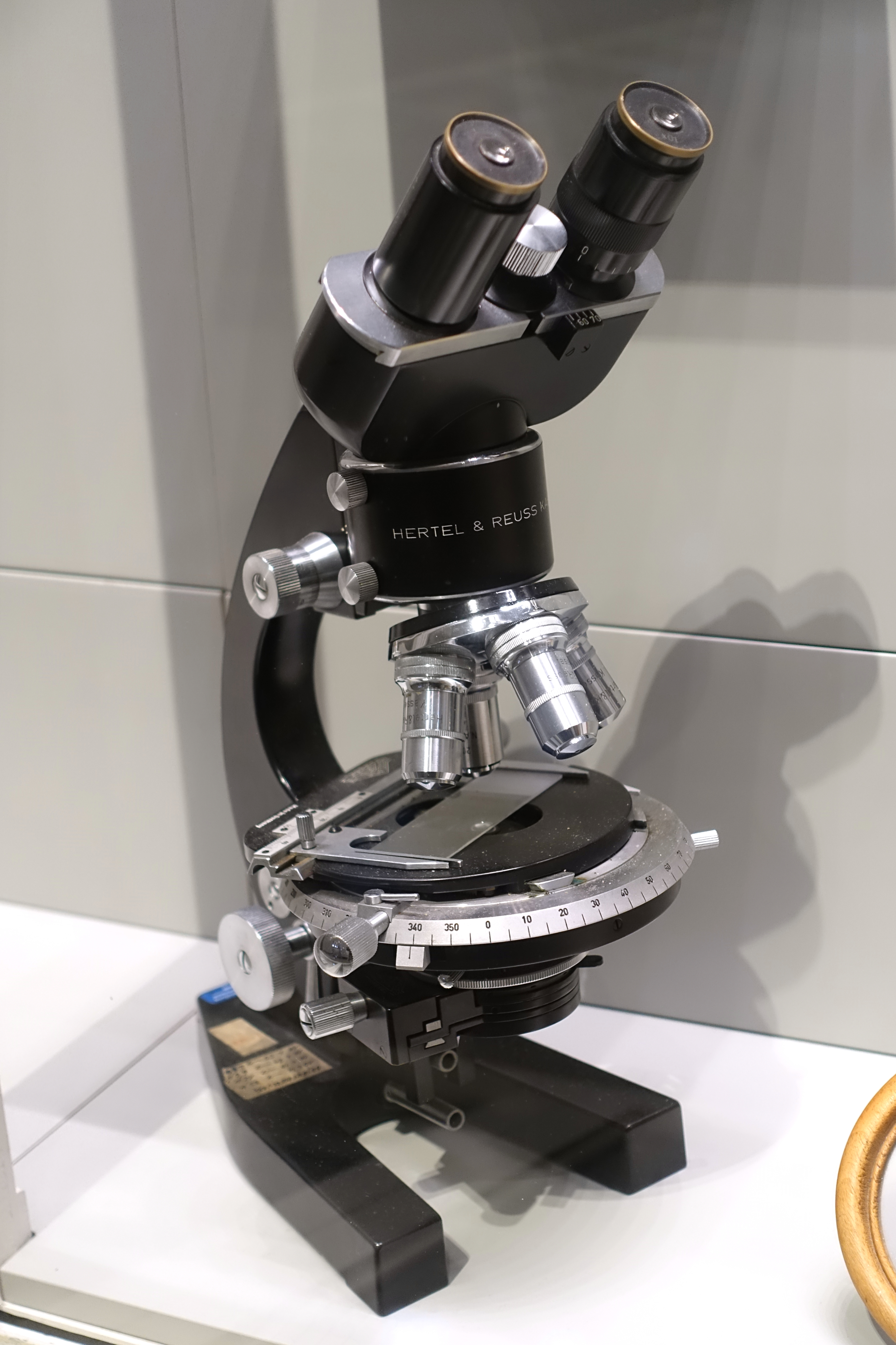 Exhibit in the Hessisches Landesmuseum Darmstadt - Darmstadt, Germany.